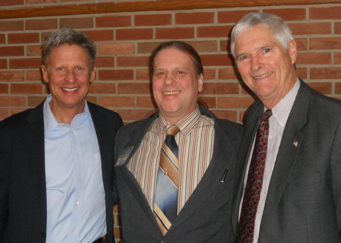 This is a picture of (left to right): Governor Gary Johnson, Scotty Boman, and Judge James P. Gray. I took it at Hillsdale College (in Michigan) on April 2, 2013, and cropped it on a computer.